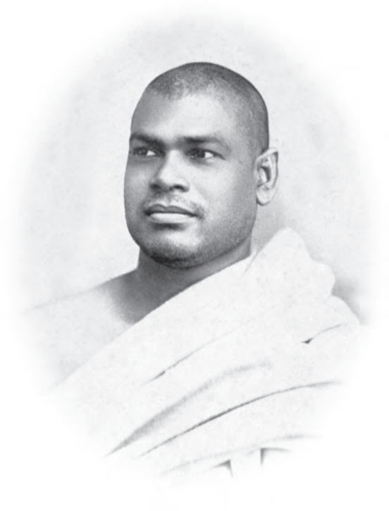 Swami Ramakrishnananda, a direct disciple of 19th century mystic Ramakrishna Paramahamsa